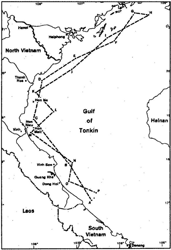 Charts showing the course of the DESOTO patrols off Vietnam in 1962-1964. DESOTO patrols (DeHaven Special Operations off TsingtaO) were patrols conducted by U.S. Navy destroyers equipped with a mobile "van" of signals intelligence equipment used for intelligence collection in hostile waters. The destroyer USS De Haven (DD-727) is the namesake for these patrols. The De Haven performed the first patrol off the coast of China in April 1962. The first patrol to target North Vietnam in the Gulf of Tonkin was the USS Agerholm (DD-826) in December 1962. The tactical purpose of the patrols in Vietnam was to intercept North Vietnamese Army intelligence and relay it to South Vietnamese Army forces. With the intercepted communications, the South Vietnamese were able to more effectively coordinate their raids. The destroyers taking part in the DESOTO patrols in Vietnam were accompanied by air support provided by an aircraft carrier. The DESOTO patrols were part of a larger scheme known as Operation 34A. Run by the U.S. Department of Defense at the time, Operation 34A, or "OPLAN 34Alpha" was a top secret program consisting primarily of covert actions against the North Vietnamese. These patrols were initially a response to the Chinese Communists' unexpected re-definition of their territorial waters to include all waters shoreward from lines drawn tangentially to, and between, twelve mile circles drawn around their offshore islands.